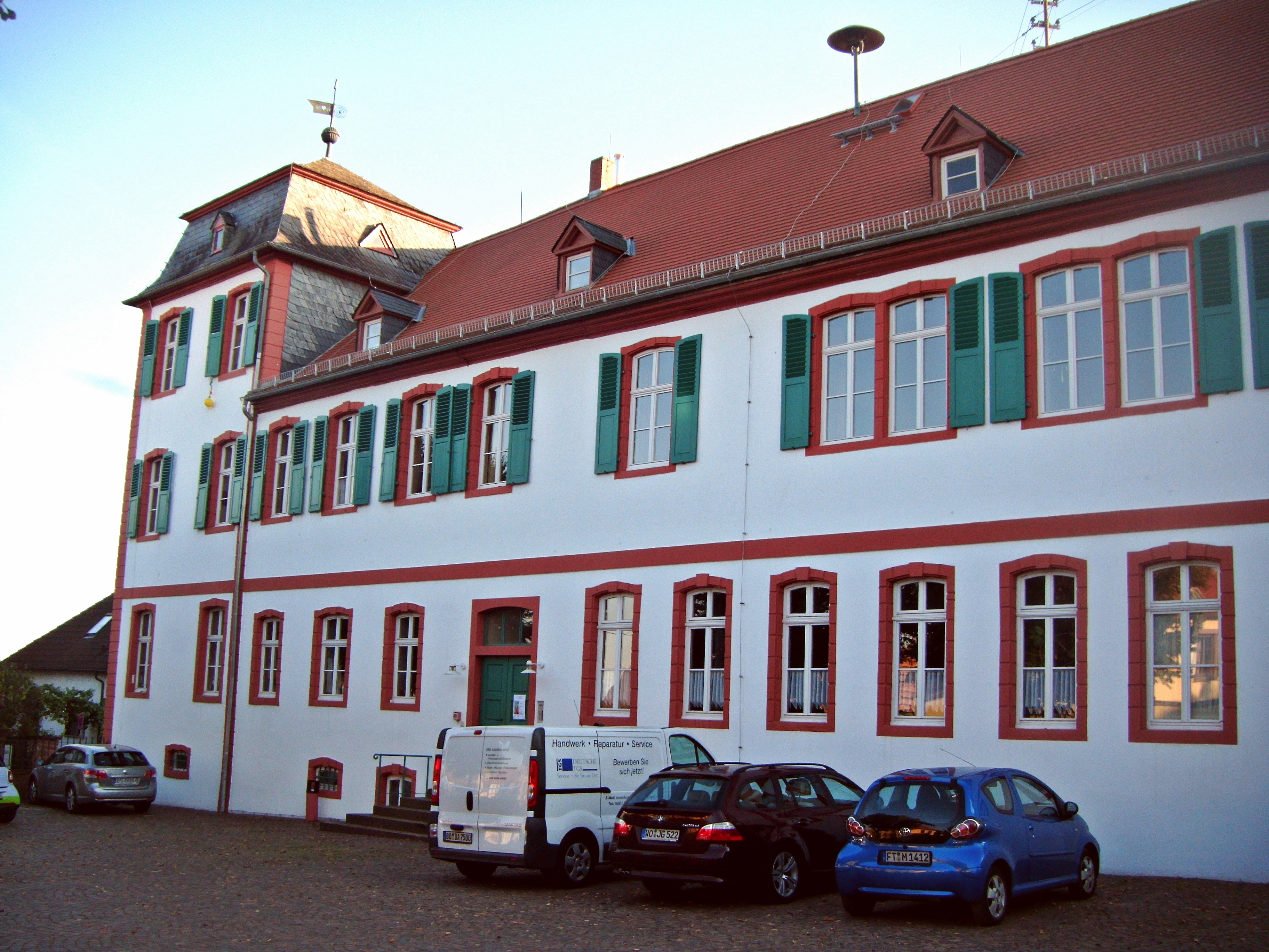 Schloss Kleinniedesheim